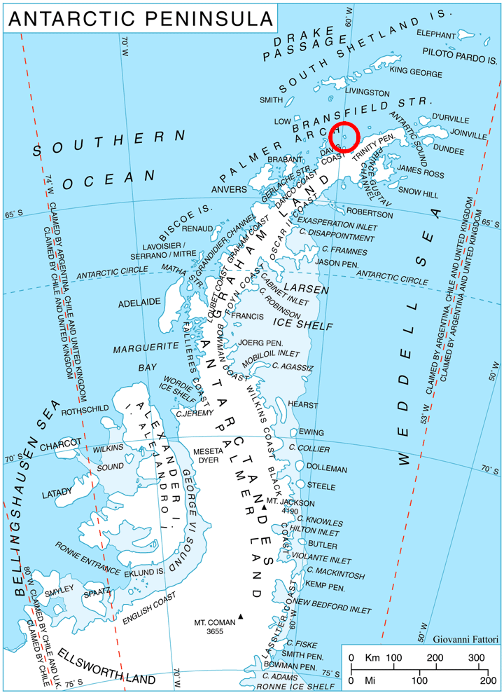 Location of Tower Island, Antarctica.